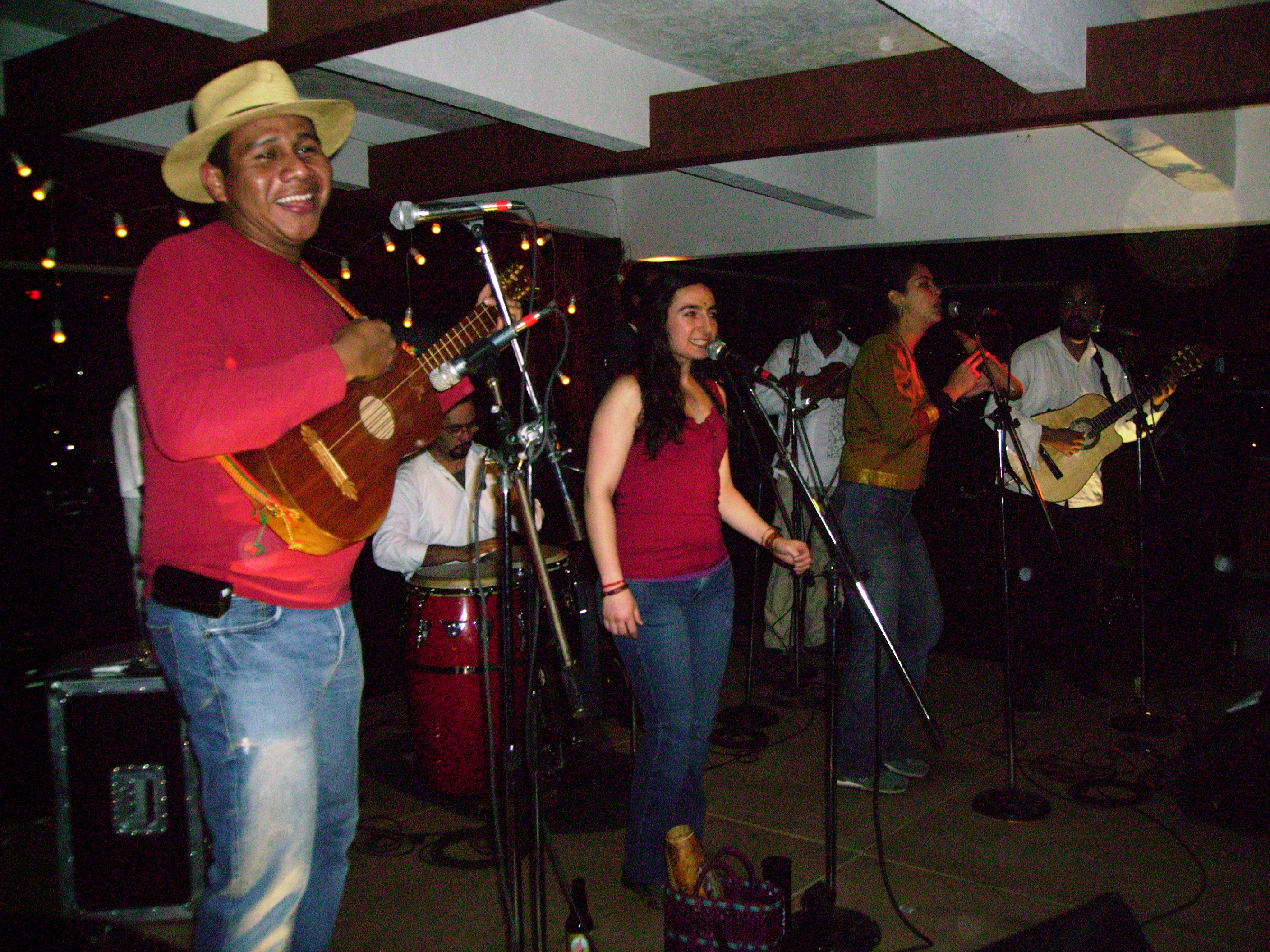 Grupo Chéjere, Mexico City, january 19, 2007